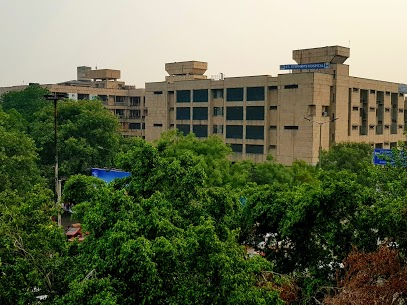 St Stephen's Hospital building as seen from Tis Hazari Metro Station. The visible section encompasses the Mother and Child Block named after Dr Lucy Oommen